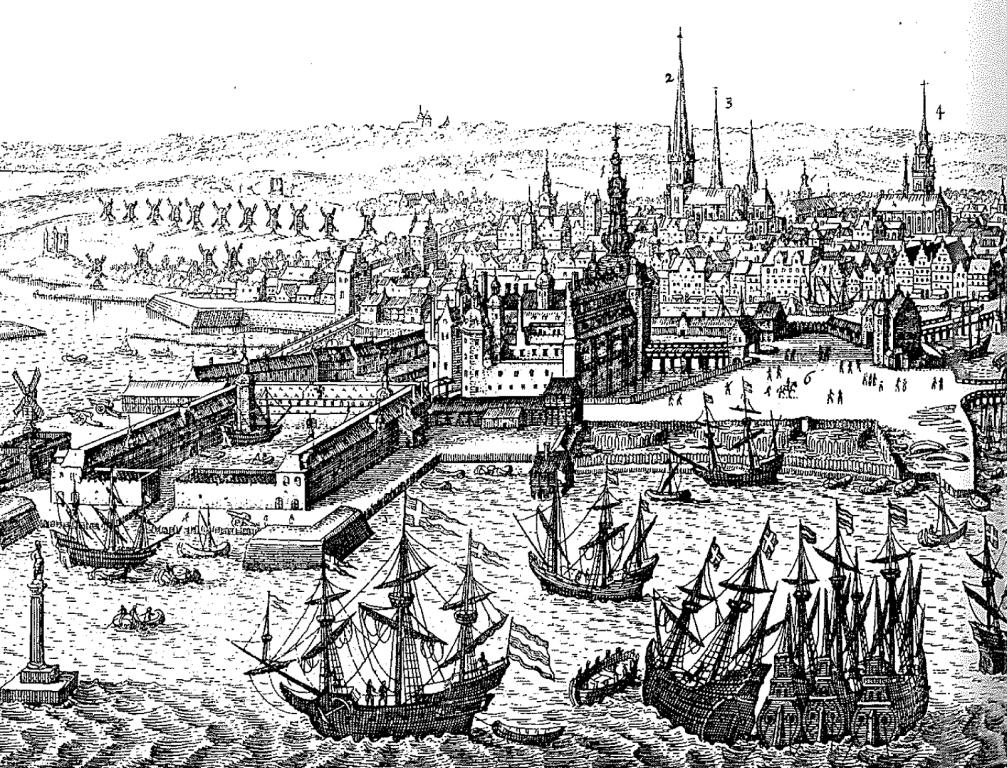 Slotsholmen with the Tøjhushavnen complex in the foreground and the Leda with the Swan monument in the bottom left corner in Copenhagen, Denmark